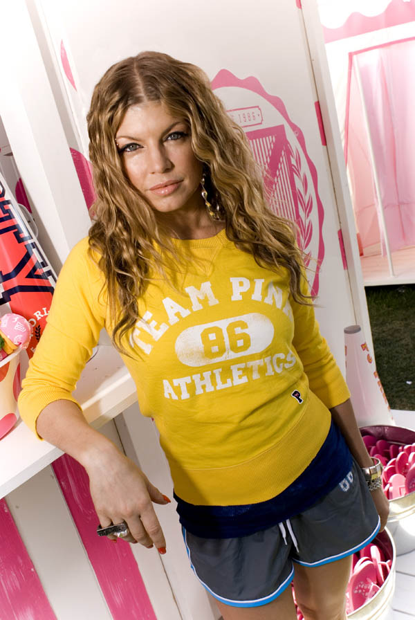 Fergie, member of music group Black Eyed Peas